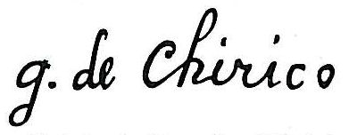 autograph of the painter Giorgio de Chirico